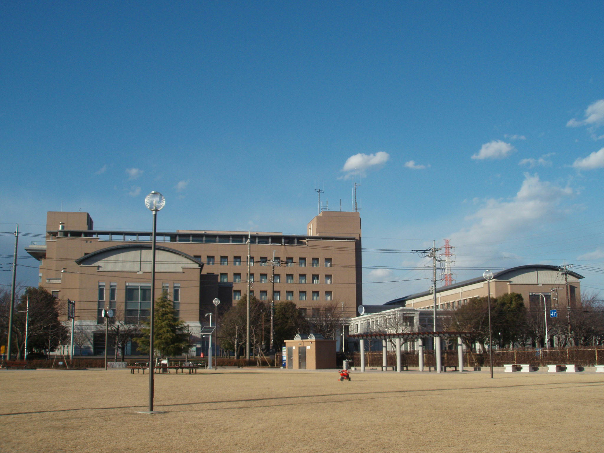 Ayase City Hall, KANAGAWA Pref. Japan